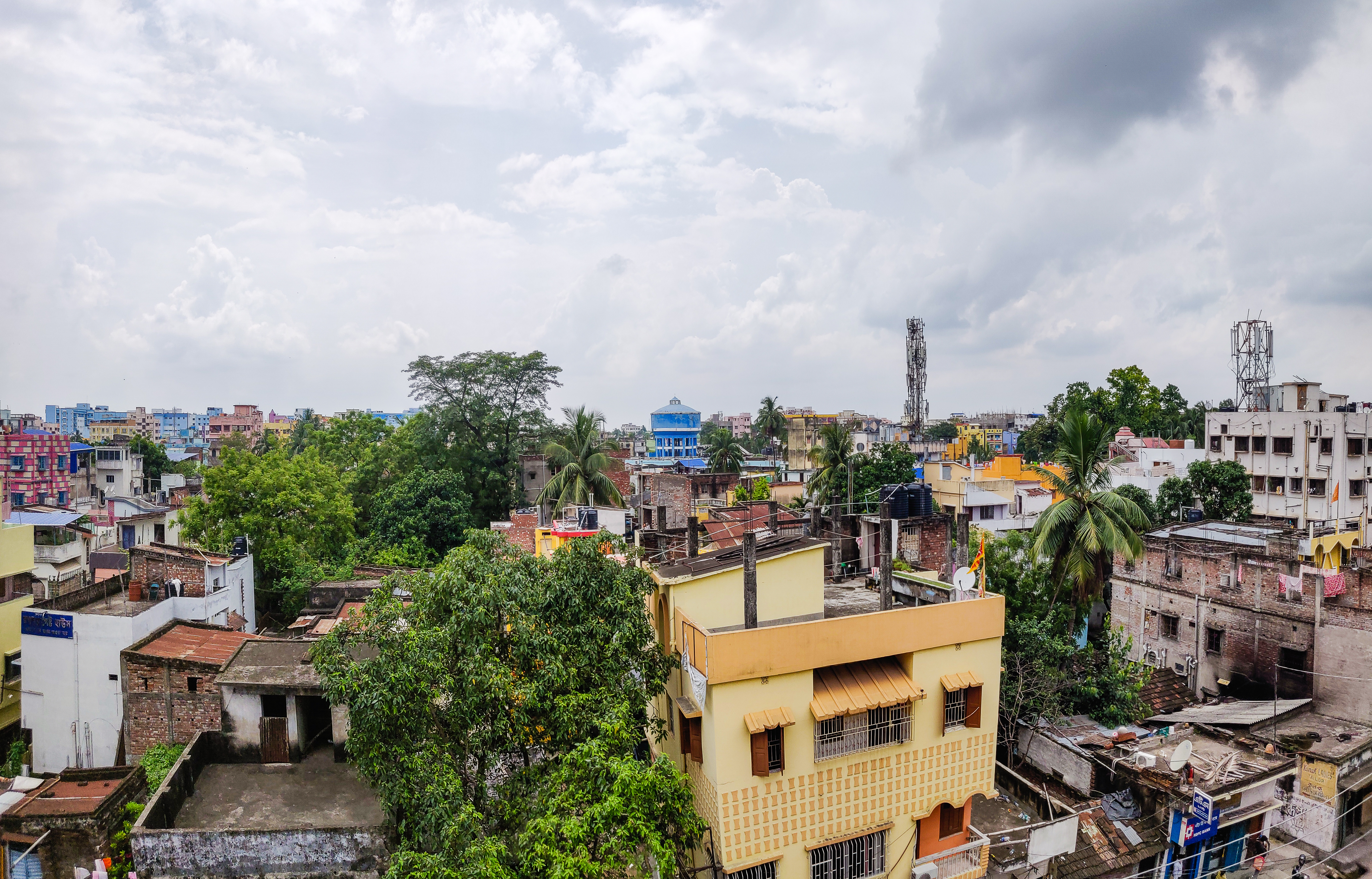 Malda Skyline as Viewed from Dishari Health Point.